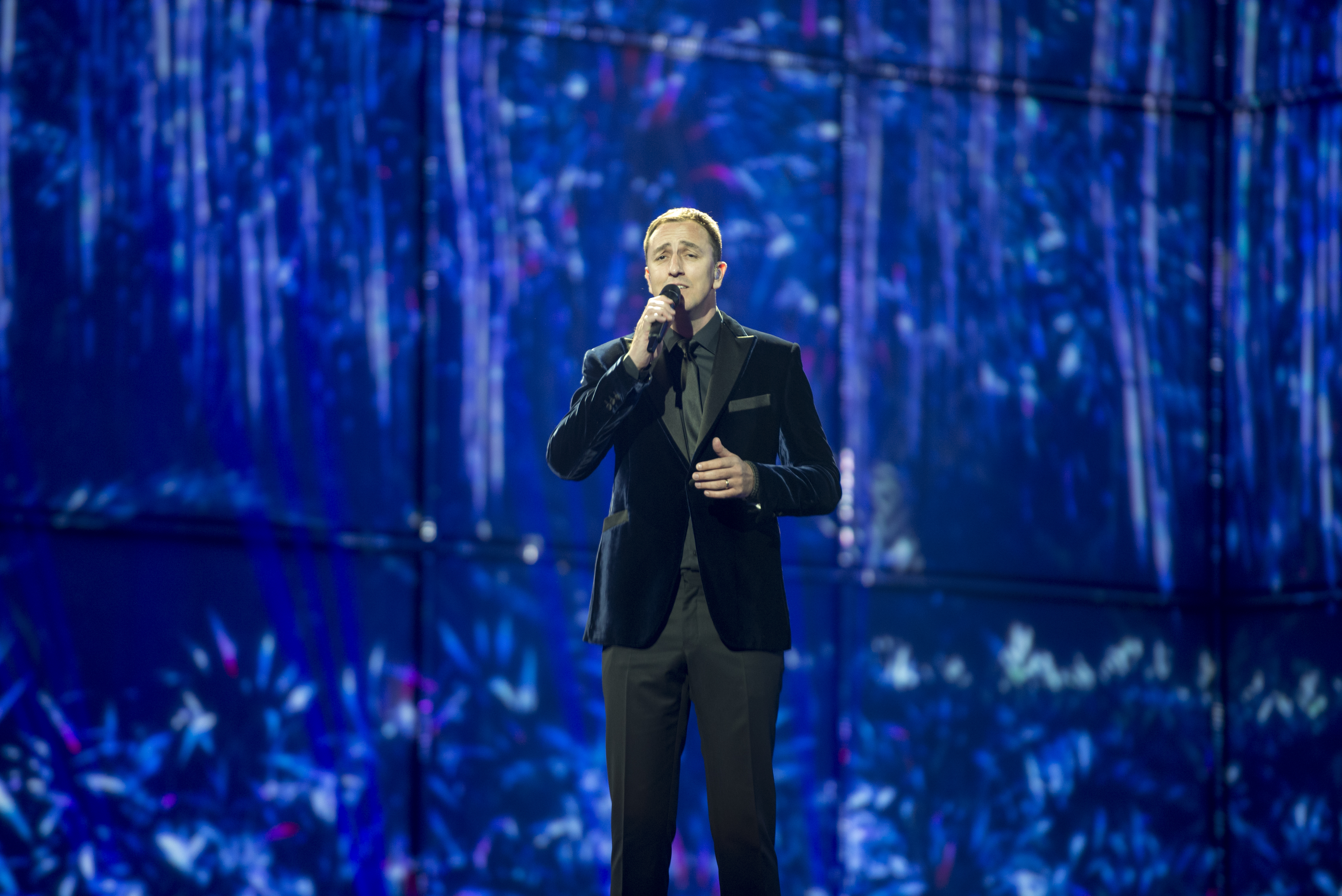 Sergej Ćetković representing Montenegro with the song "Moj svijet" during the first dress rehearsal of the first semi final of the Eurovision Song Contest 2014 Copenhagen. (Help translate this text)